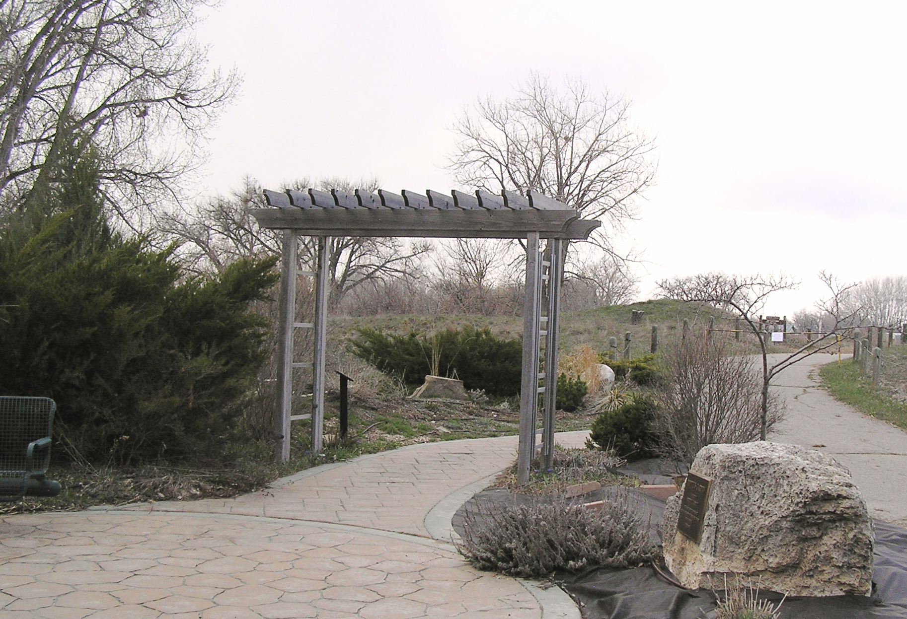 Landscaping, ZooMontana, Billings, Montana